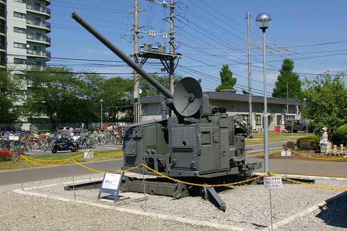 Taken by Los688,29-Apr-2007,JGSDF Camp-Shimoshizu.JGSDF M51 AAA,Air Defence Artillery School.PD-self. ja:2007年4月29日、投稿者撮影。陸上自衛隊下志津駐屯地。M51 75mm高射砲、高射学校敷地内展示。